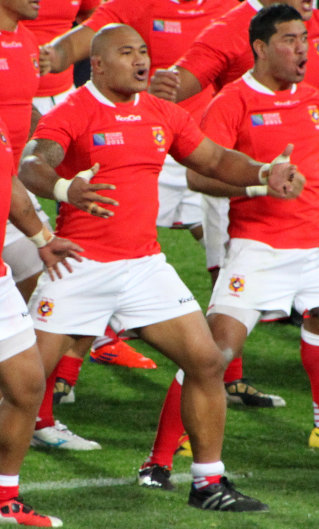 Tongan rugby union player Alisona Taumalolo after 2011 Rugby World Cup match against France.